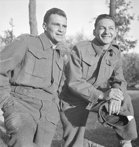 Sergeant Johnny Wayne and Staff-Sergeant Frank Shuster (Wayne and Shuster) of the Canadian Army Show relaxing before a performance of their comedy show for personnel of the 2nd Canadian Infantry Division.